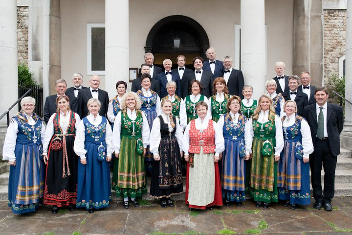 The Norwegian choir Helgeland Kammerkor at the church of St. Mary, Lewisham, London: June 2011